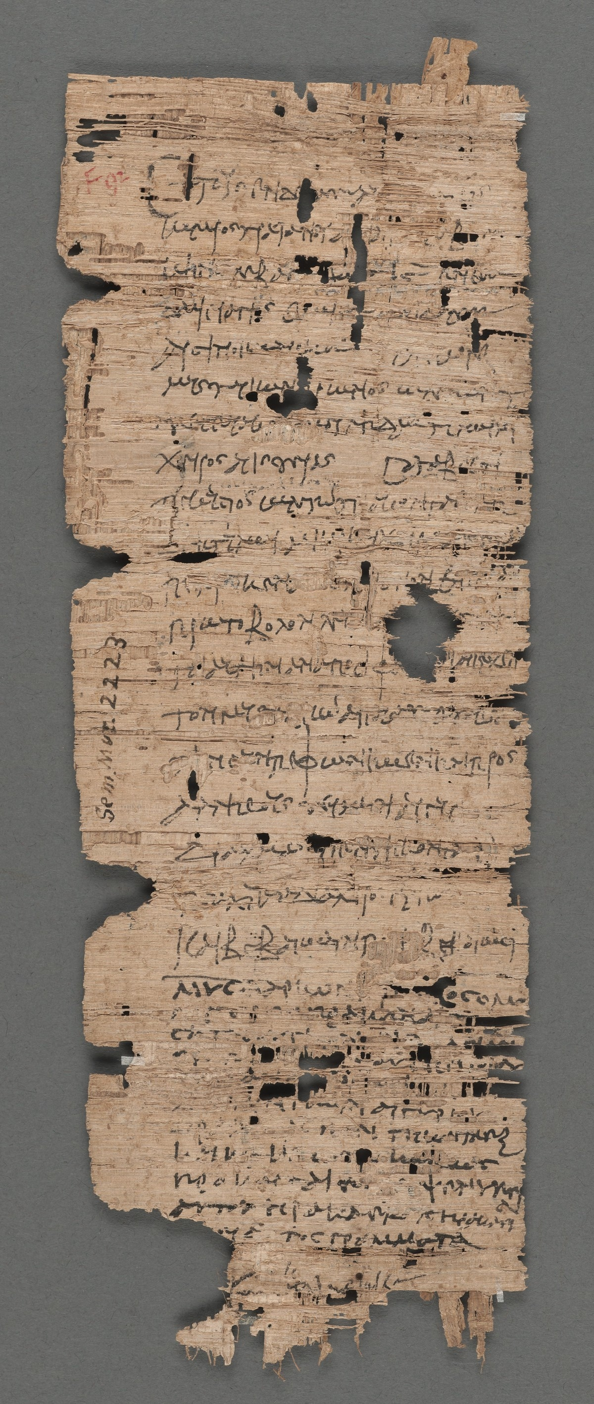 Bill of sale for a donkey, 126 AD. 1 leaf : papyrus ; 19.3 x 7.2 cm. P.Fay.92 (MS Gr SM2223. Houghton Library, Harvard University). Written in Ancient Greek.